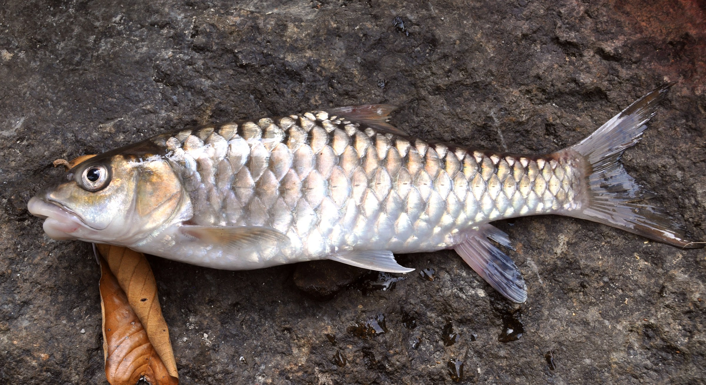 Tor tambroides, 267 mm SL (standard length). From Jambi, Sumatra, Indonesia.